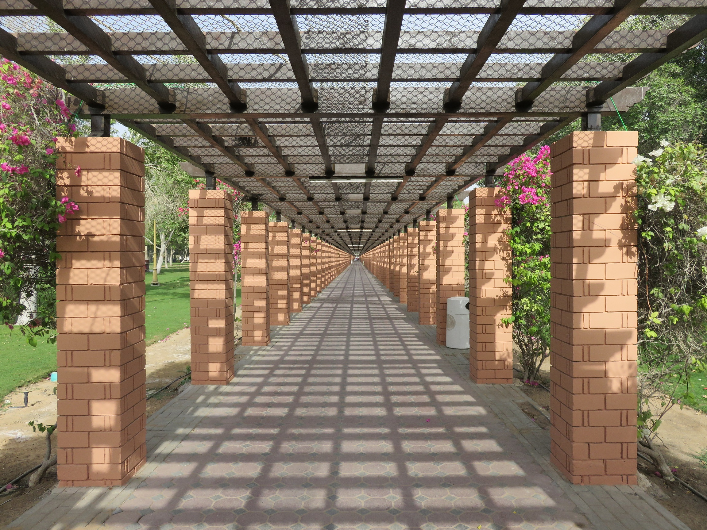 Sharjah national park